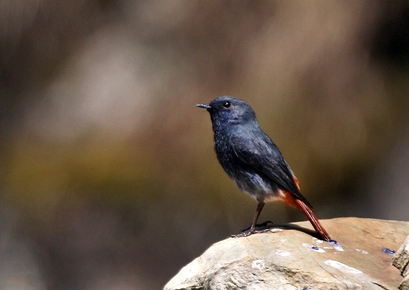 Male Plumbeous Water Redstart (Rhyacornis fuliginosus) in Kullu District of Himachal Pradesh, India